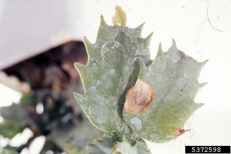 Fusarium root rot and wilt